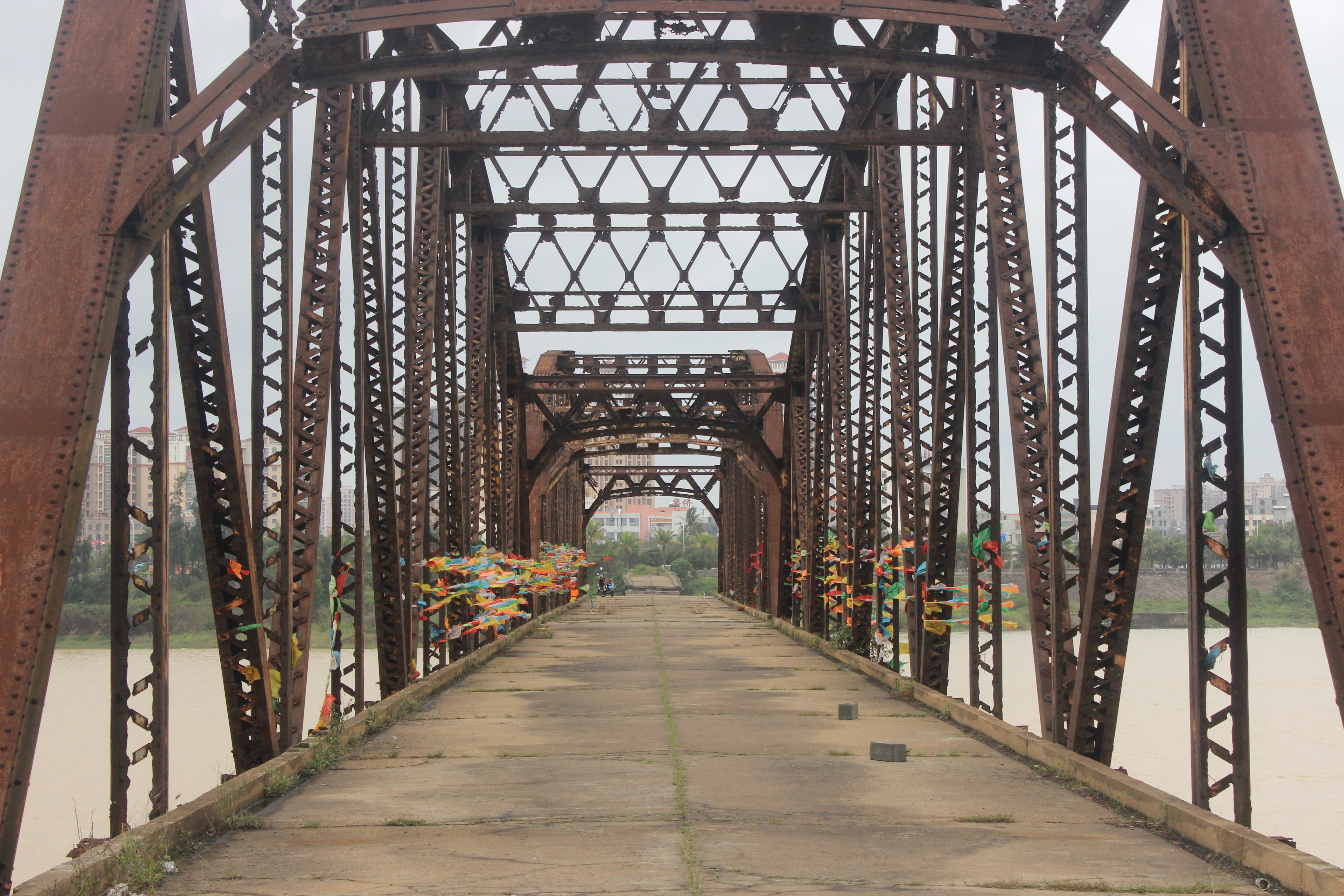 Remains of the Nandu River Iron Bridge in Haikou, Hainan Island, China